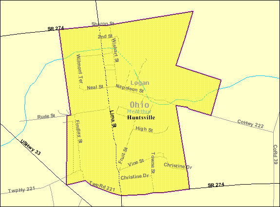 Map of Huntsville, a village in Logan County, Ohio, United States, with its boundaries at the time of the 2000 census.